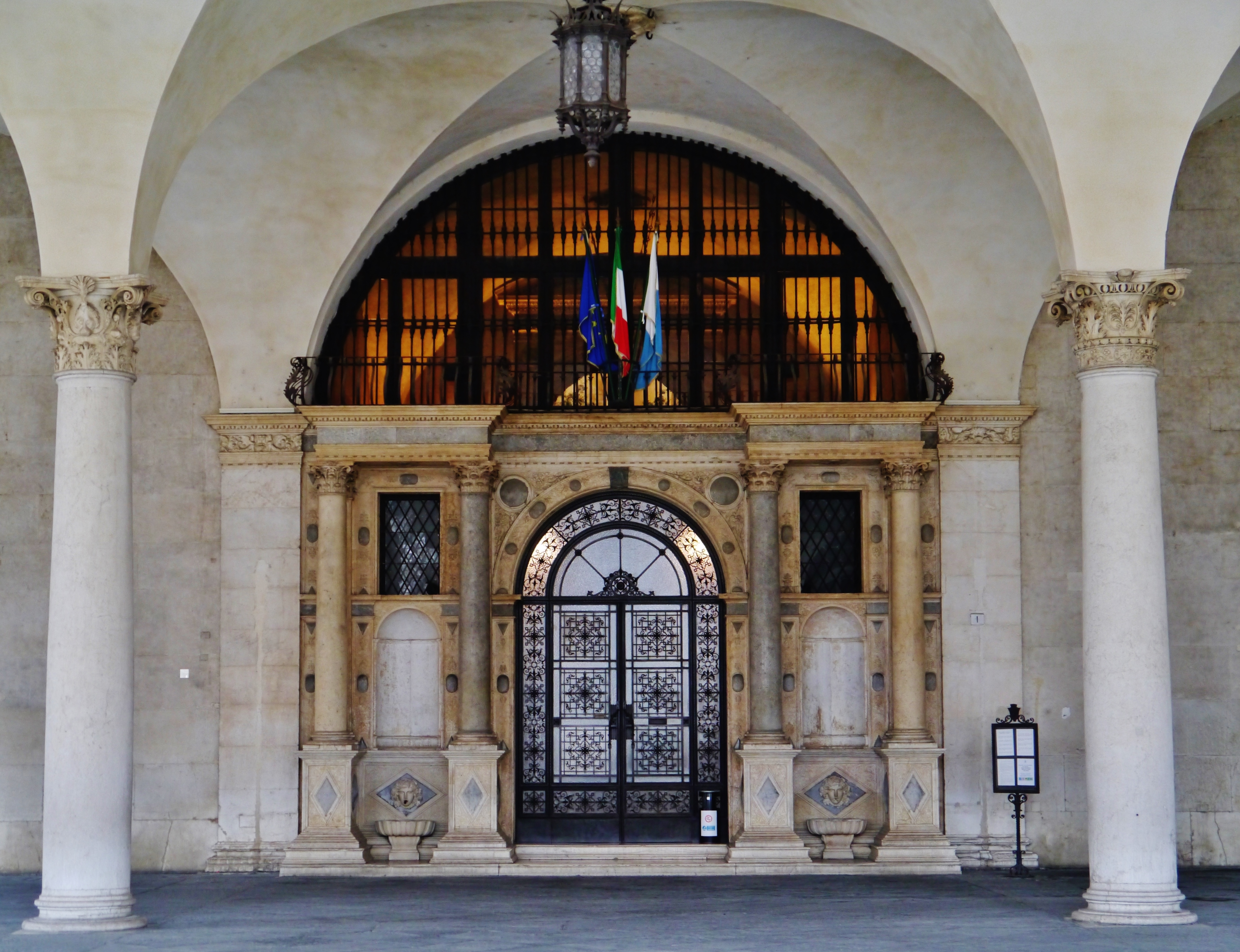 Arcades of the Loggia Palace at the Loggia Square, Brescia, Province of Brescia, Region of Lombardy, Italy